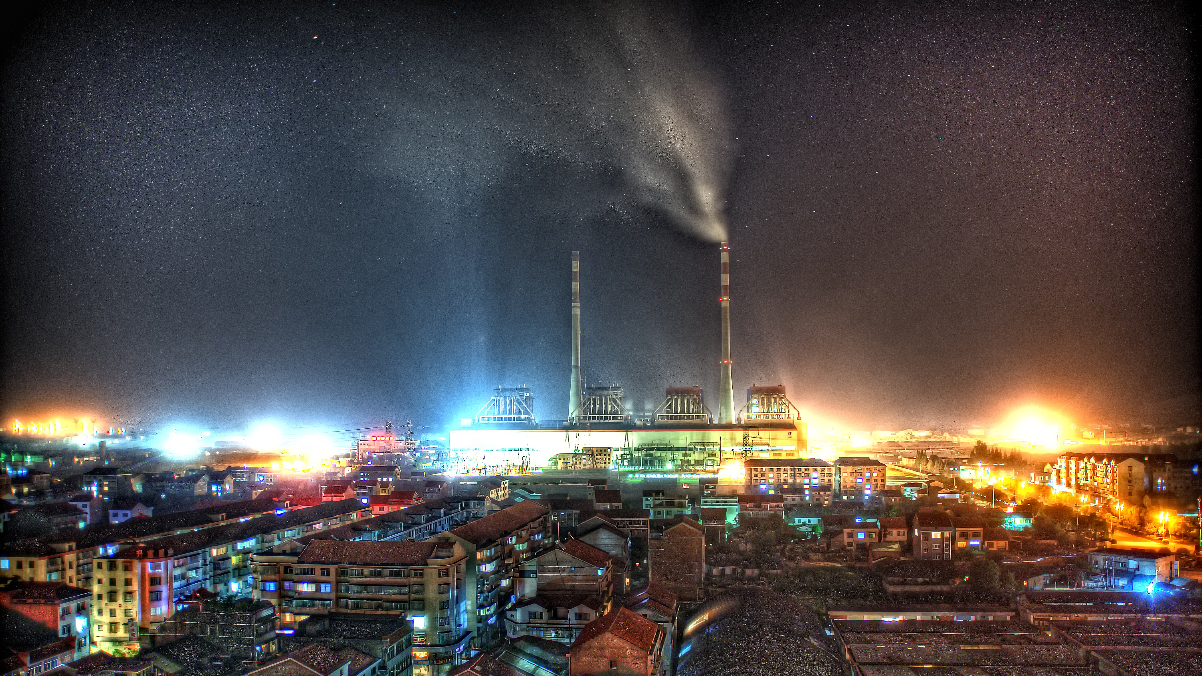 Please: View Large On Black ! We were in Shimen (石门) for one night only, so we tried to find some come places in the night to take photos. But the city was pretty boring, so we ended up on the roof of our hotel, after finding a hidden staircase and sneaking up there. Amazing view, and damn scary at the same time. Would you like to live in one of these houses? ;) Taken in the city of Shimen in Hunan province. Nobody really knows this city even though 750.000 people live there. Crazy. I'm always posting pictures and videos on my blog in high res, be sure to check it out !